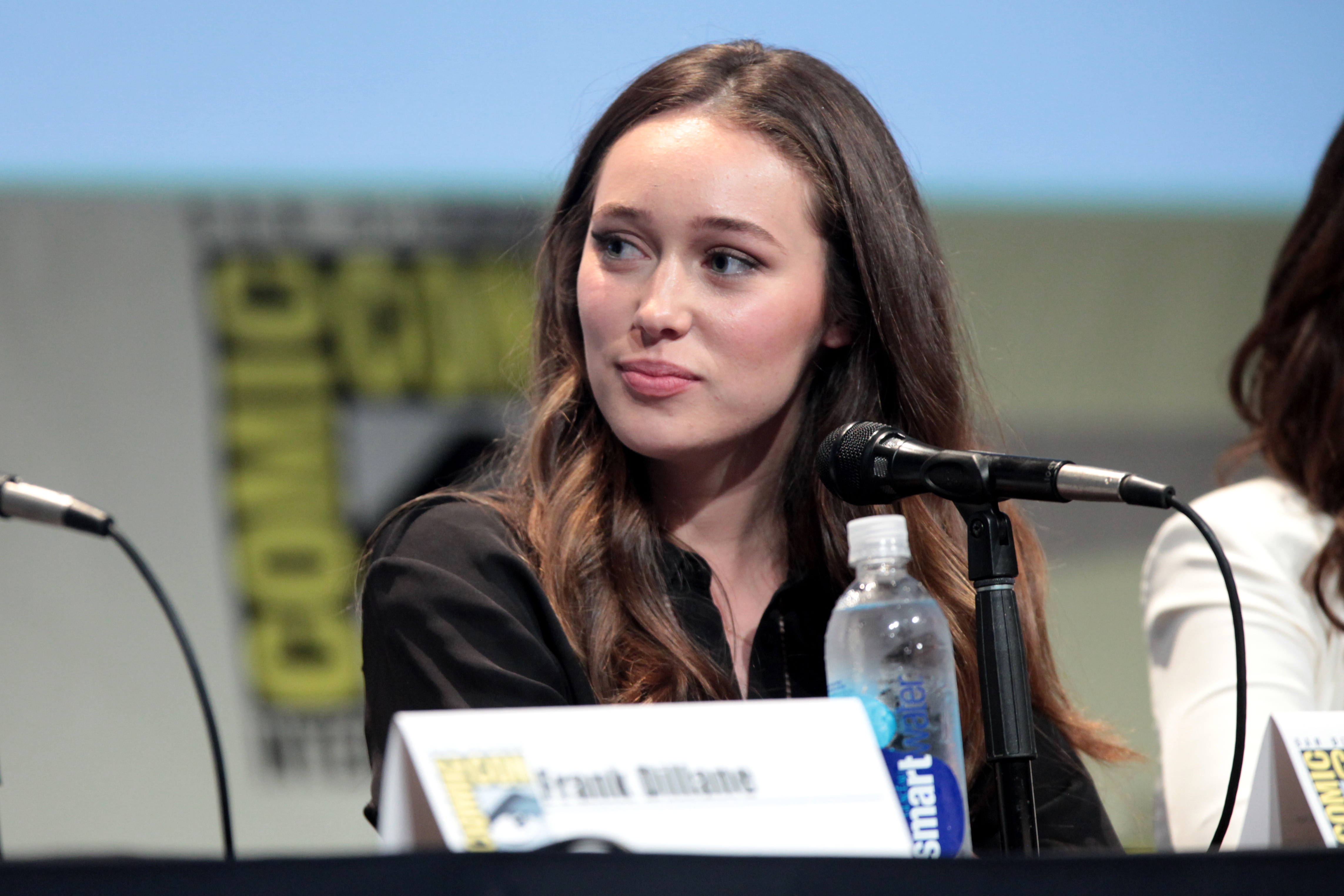 Alycia Debnam-Carey speaking at the 2015 San Diego Comic Con International, for "Fear the Walking Dead", at the San Diego Convention Center in San Diego, California.